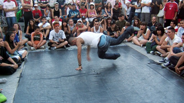 Break Dance Jam in Nuevos Ministerios, Madrid